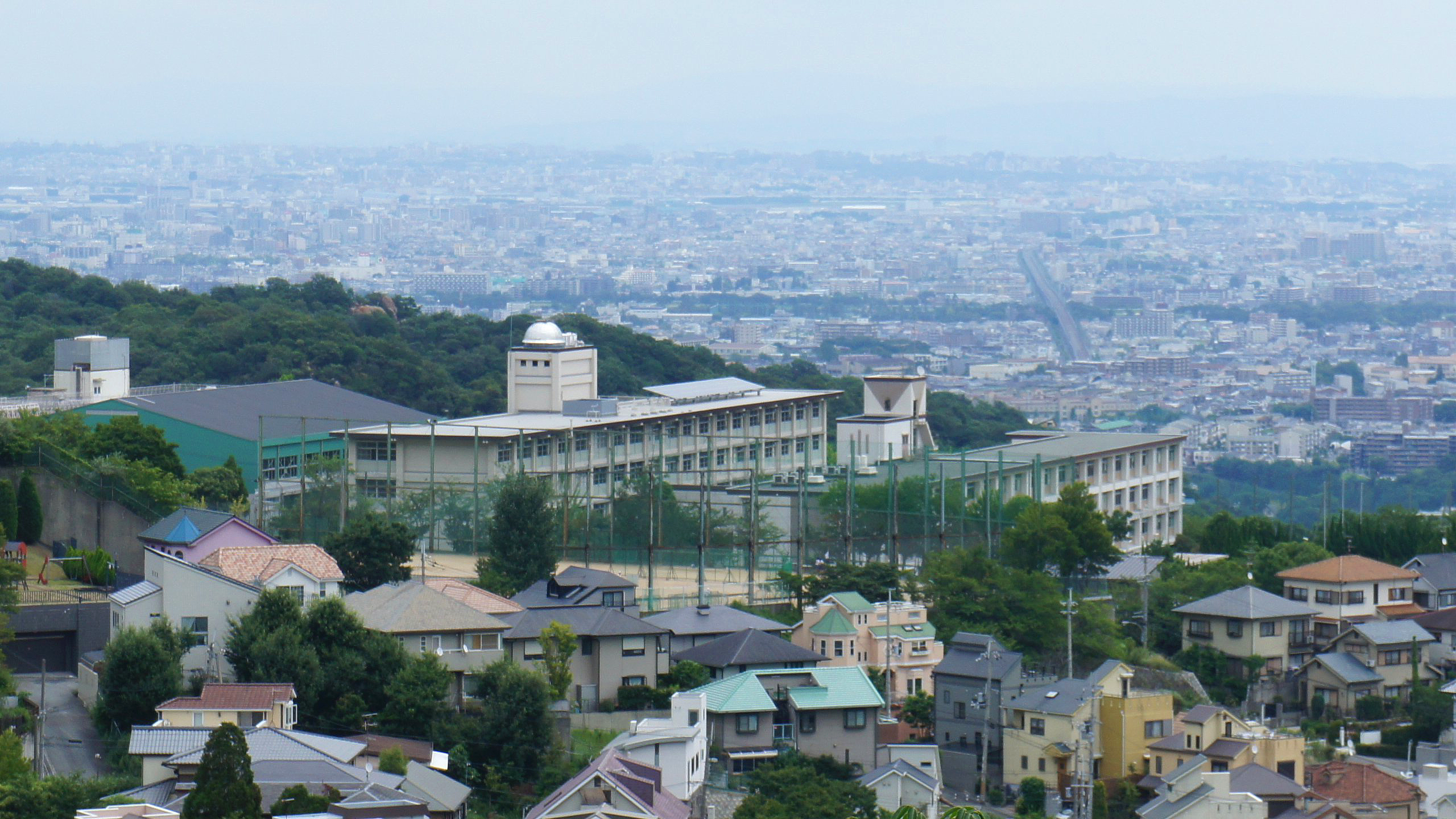 Nishinomiya-Kita Prefectural High School / Nishinomiya City Hyogo Prefecture Japan Aug. 08 2014